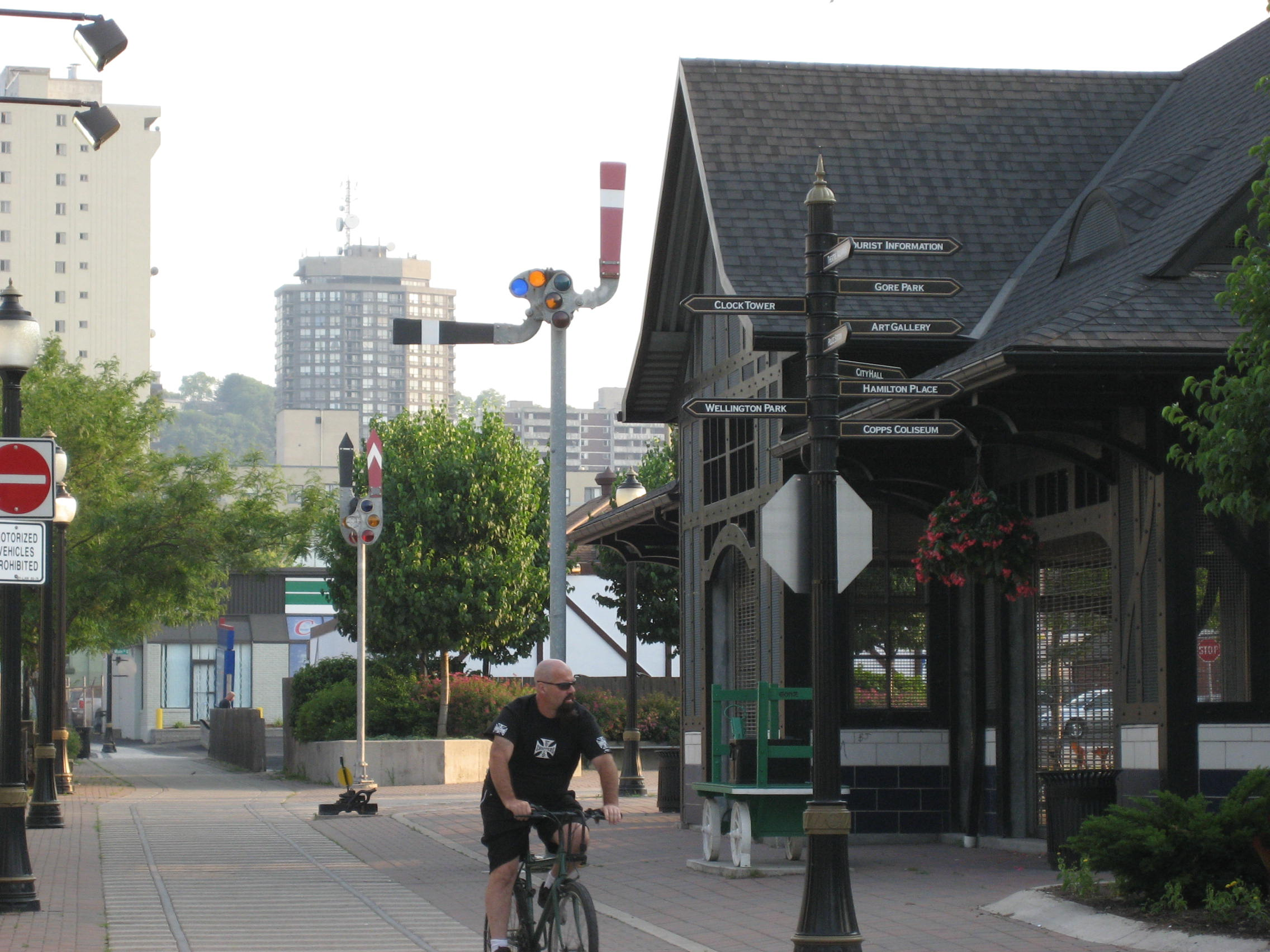 Ferguson Station at King Street East, downtown Hamilton, Ontario